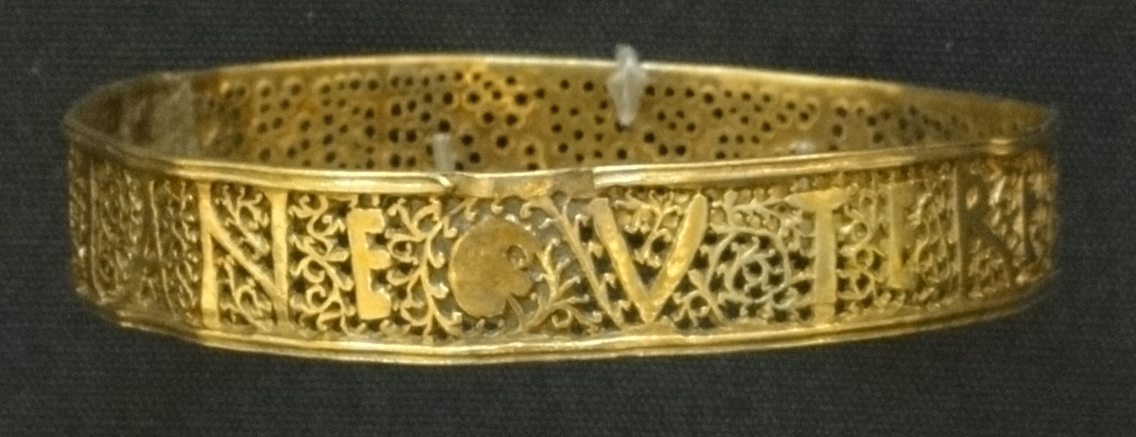 Juliane bracelet (may be incorrectly referenced as "Juliana").